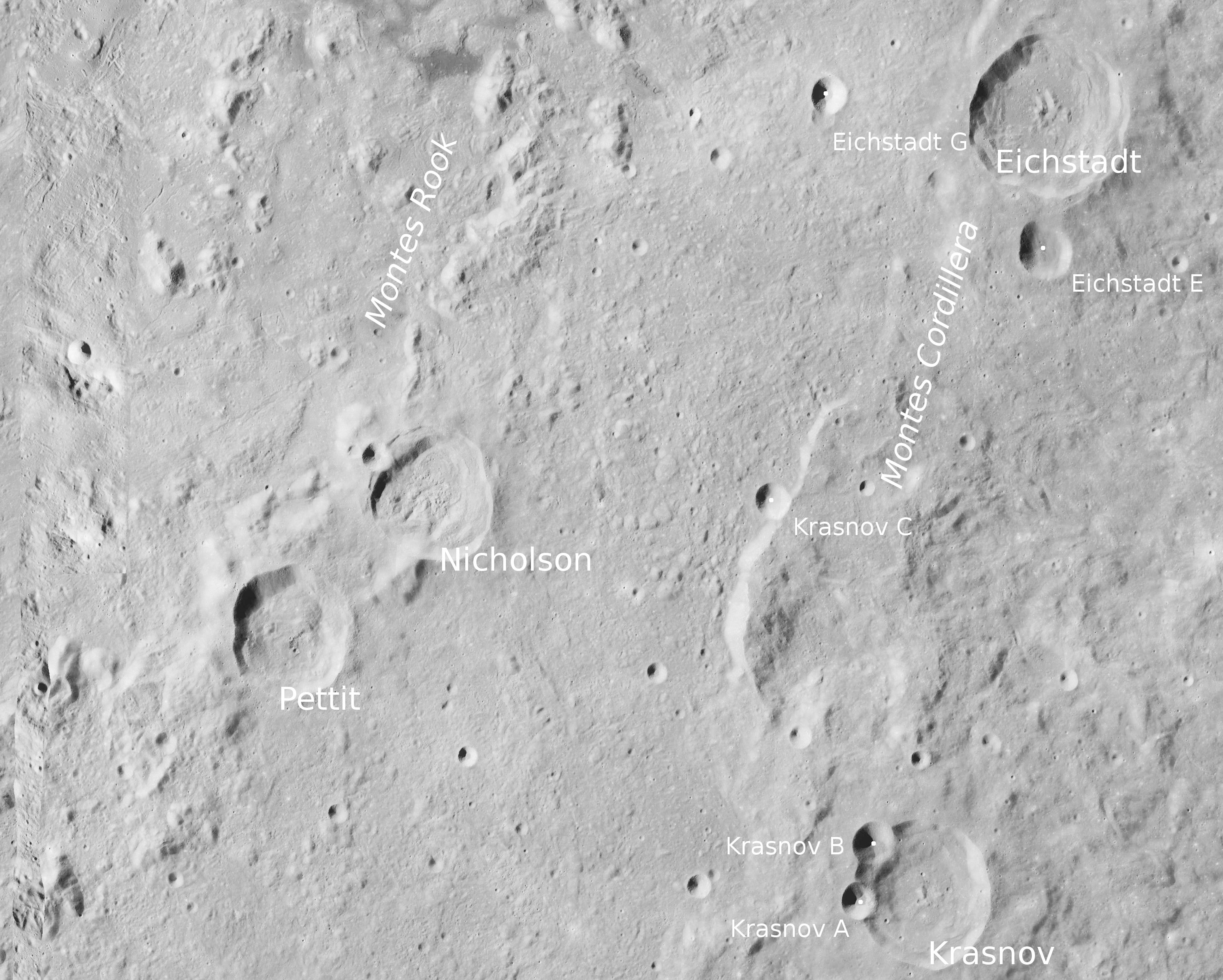 Craters Eichstatt, Krasnov, Pettit and Nicholson with parts of Montes Rook and Montes Cordillera (detail of LRO - WAC global moon mosaic; Mercator projection)